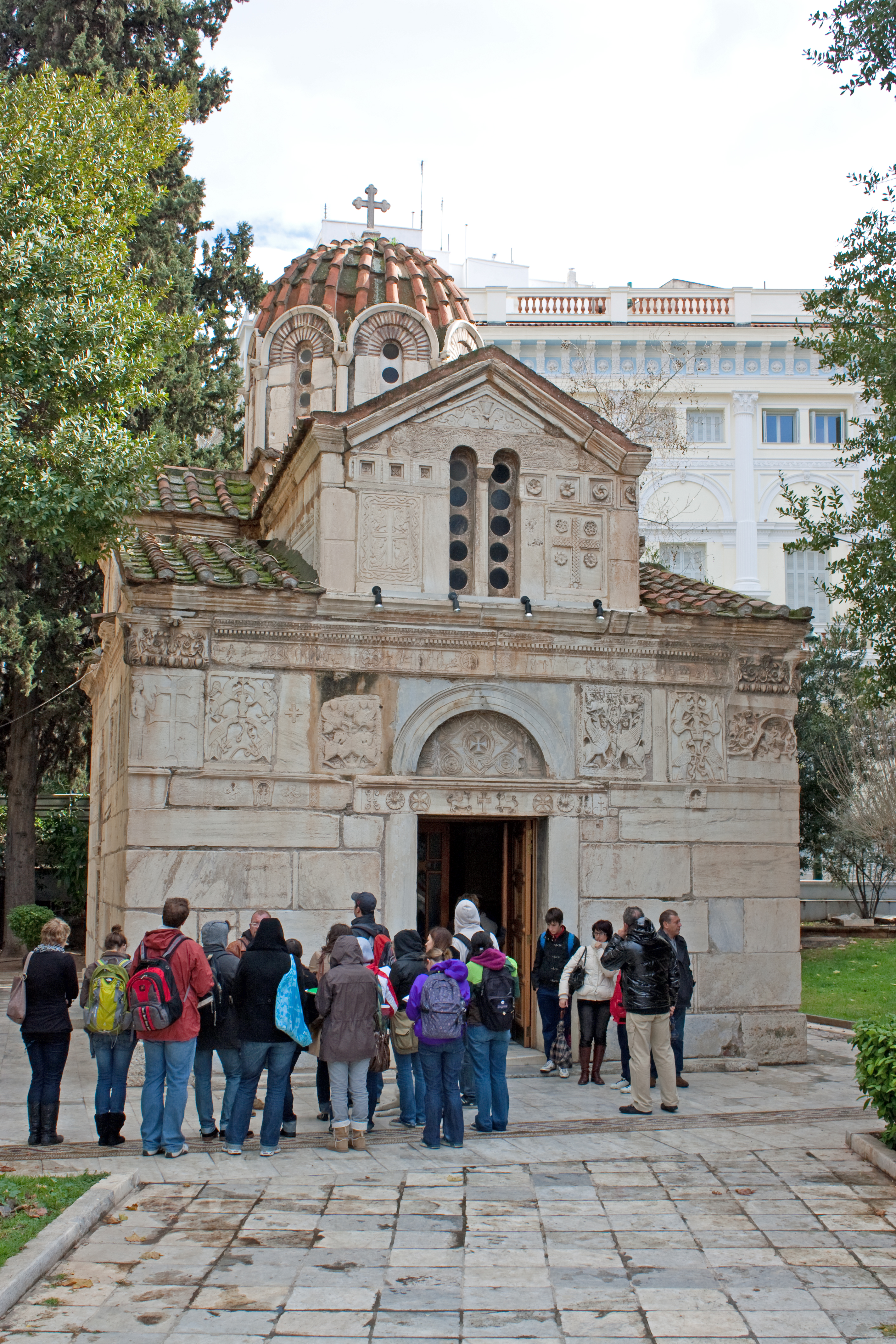 Panagía Gorgoepíkoös in Athens, Greece.